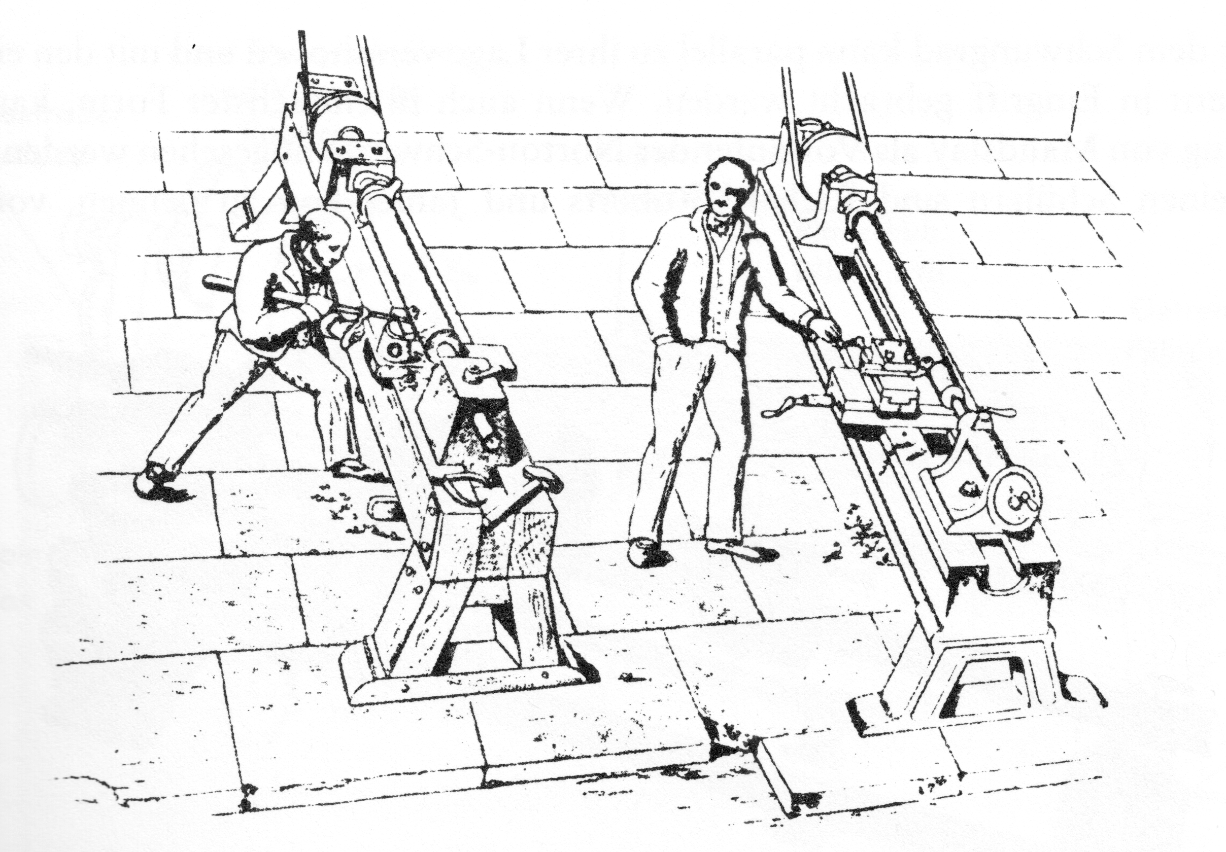 Comparision: Lathe with support and without